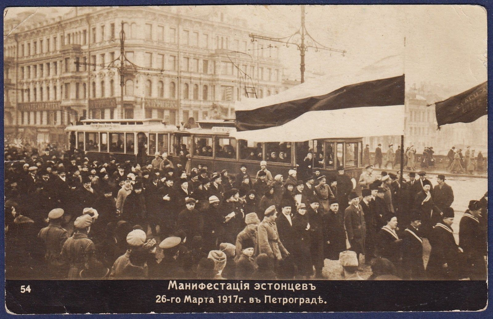 Demonstration of Estonians in Petrograd, Russia. Carte Postale (open letter) of the period